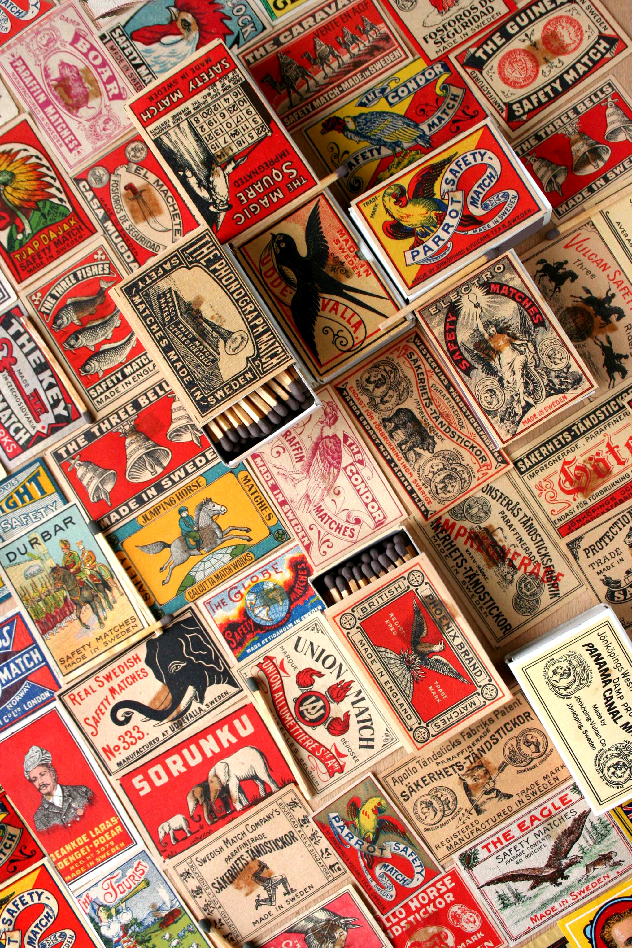 Matchbox and match labels, 100 years ago - Swedish.